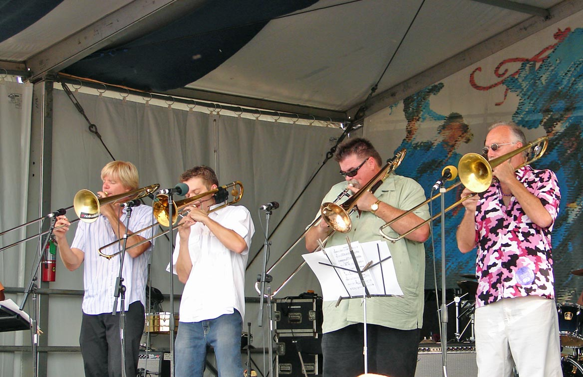 Bonerama at the New Orleans Jazz & Heritage Festival